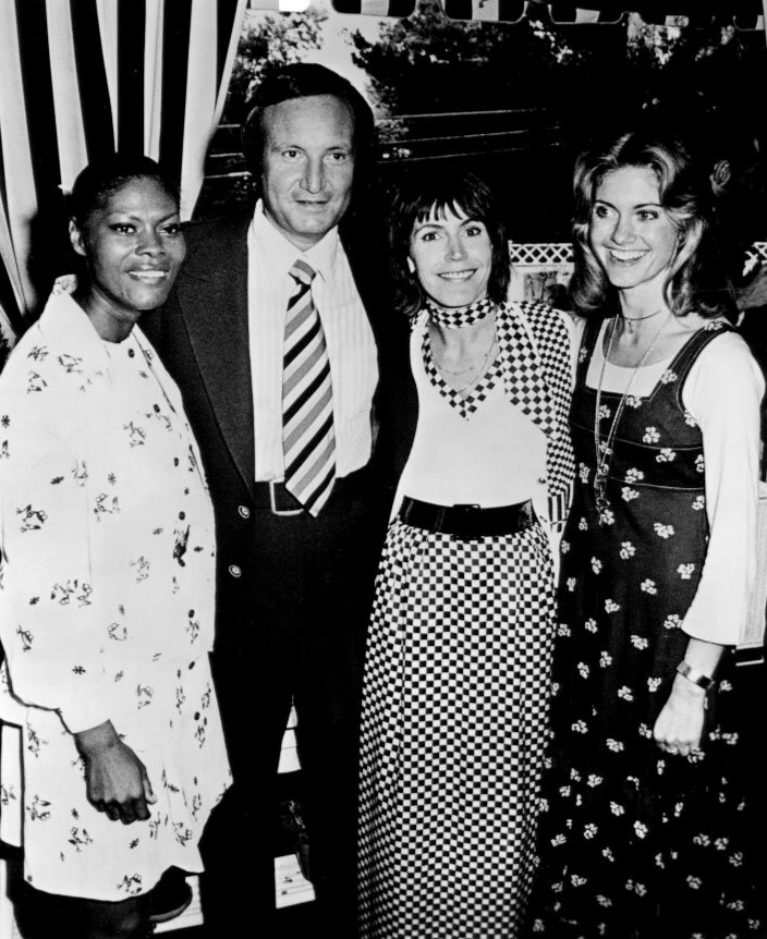 Photo of Dionne Warwick, Don Kirshner, Helen Reddy and Olivia Newton-John. The photo was taken at a party celebrating the second anniversary of Kirschner's Don Kirshner's Rock Concert television program.